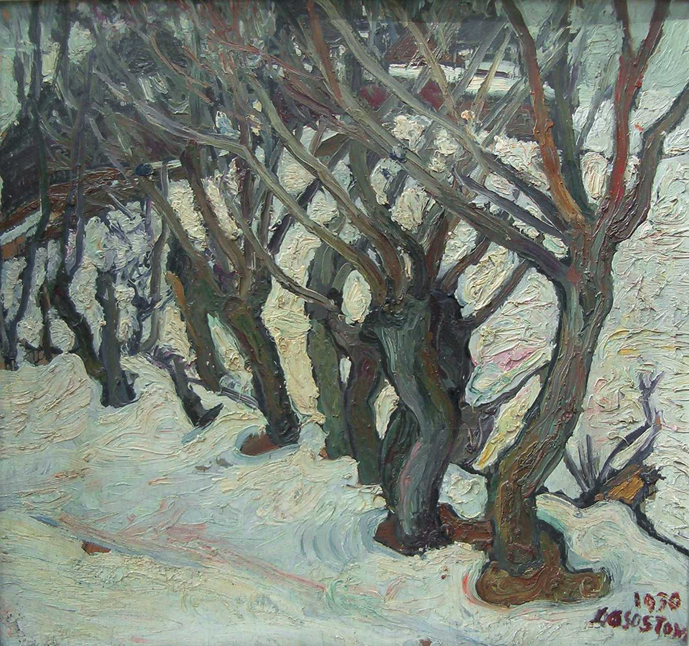 Winter landscape with trees